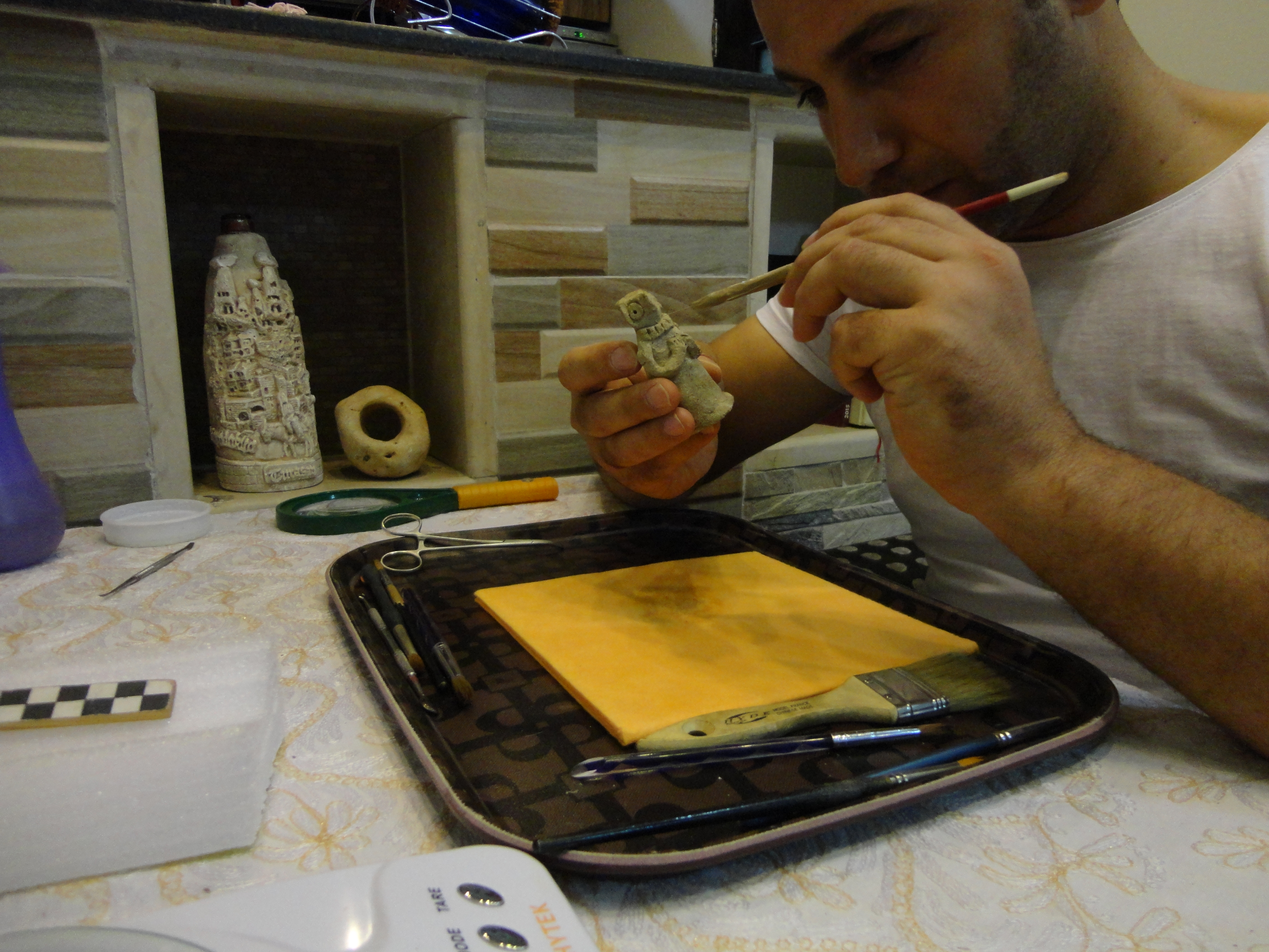 Saad Ismail during cleaning one of the objects which founded in north east of Syria.